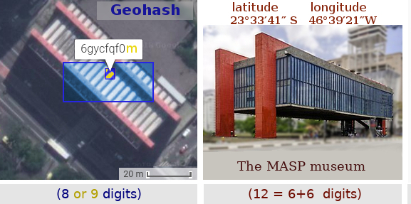 Two Geohash grid cells and its representation, comparing with latitude-longitude coordinates